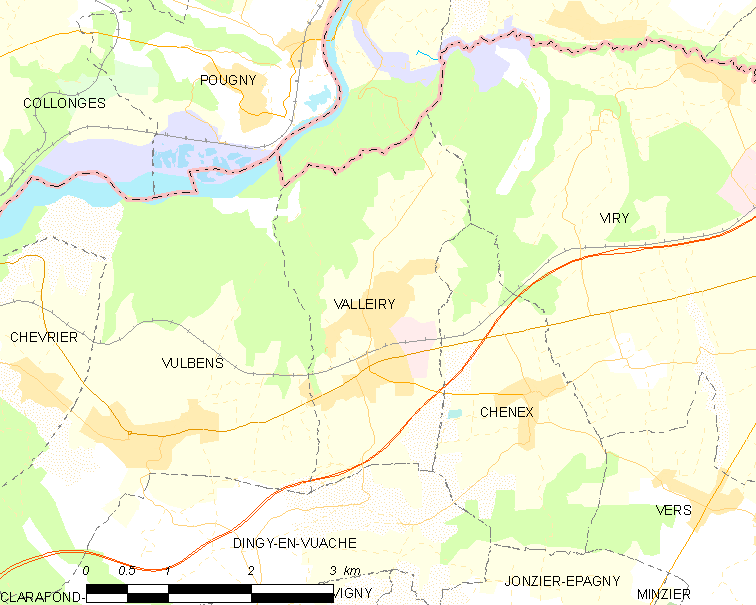 Map of French municipality Valleiry